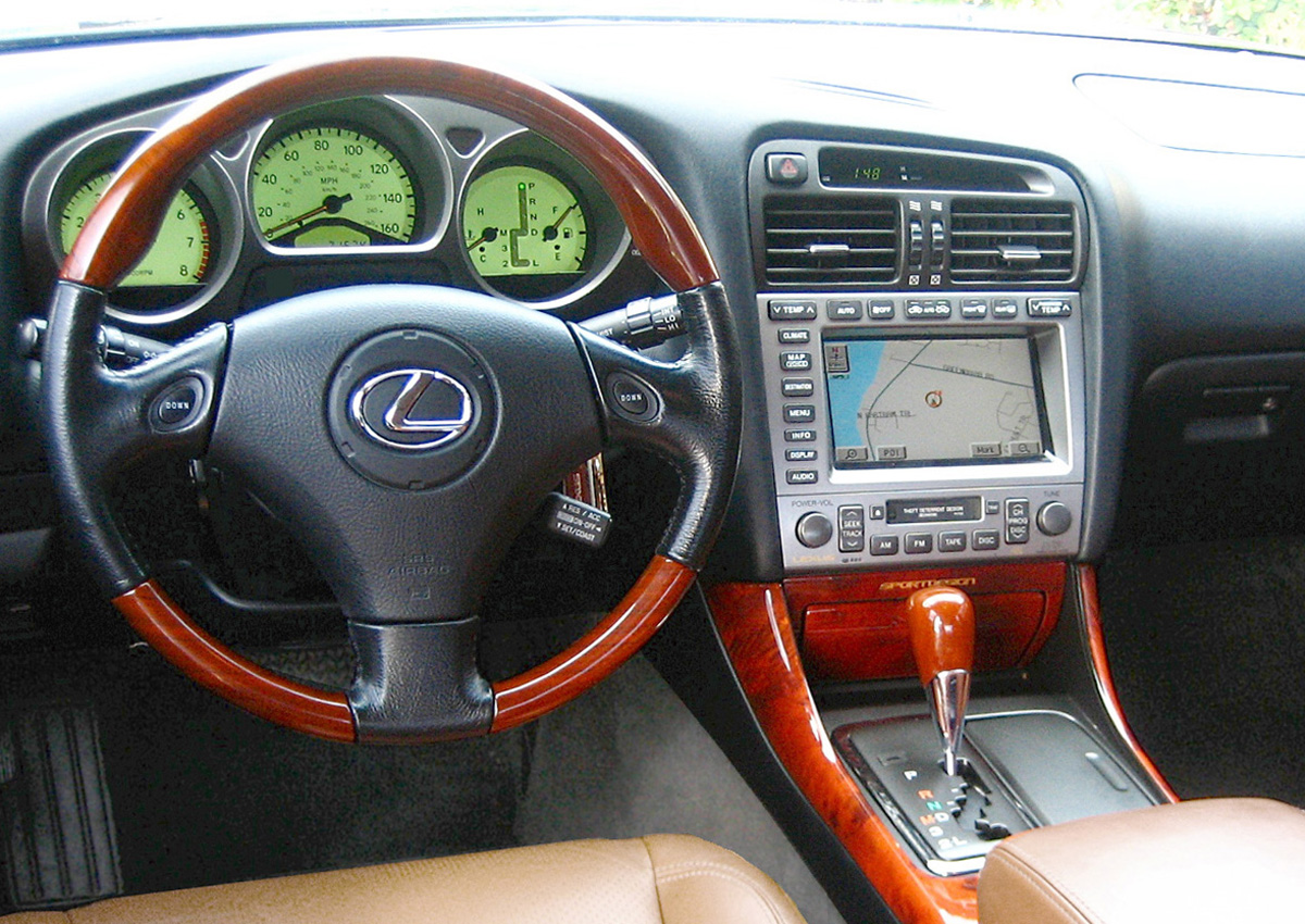 Lexus GS 300